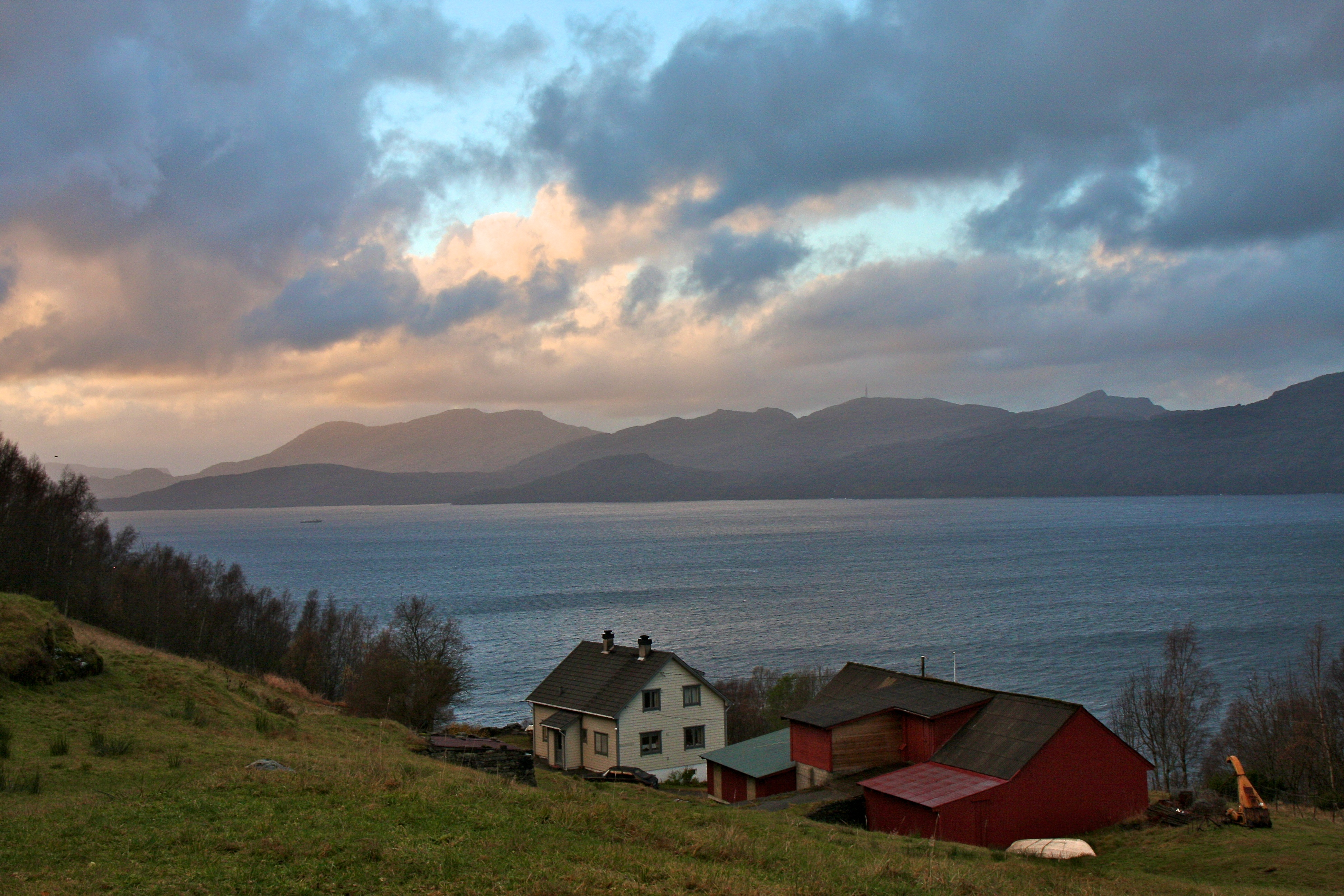 Rise (Gulen) in Gulen municipality, Norway.